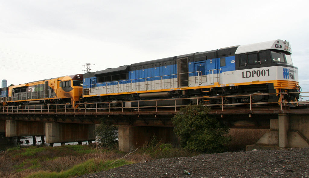 Locomotive LDP001 in Downer EDI Rail livery leads LDP007 in QRNational livery at South Dynon, Victoria